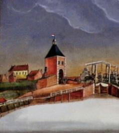 Farmsumer Gate of Delfzijl